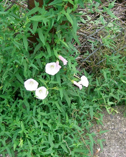 Calystegia hederacea